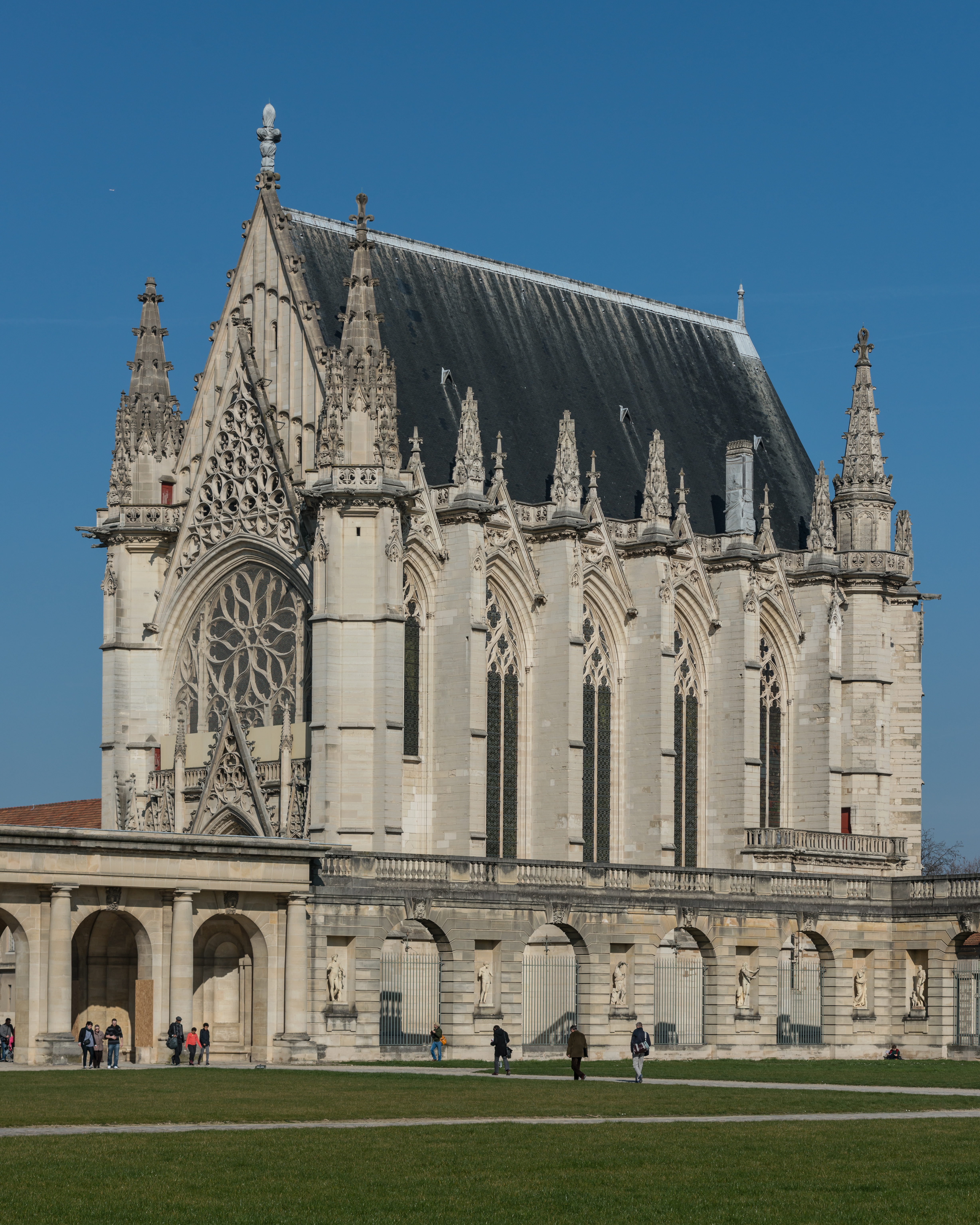 The Sainte-Chapelle de Vincennes as seen from south-west, embedded in the buildings of the Château de Vincennes